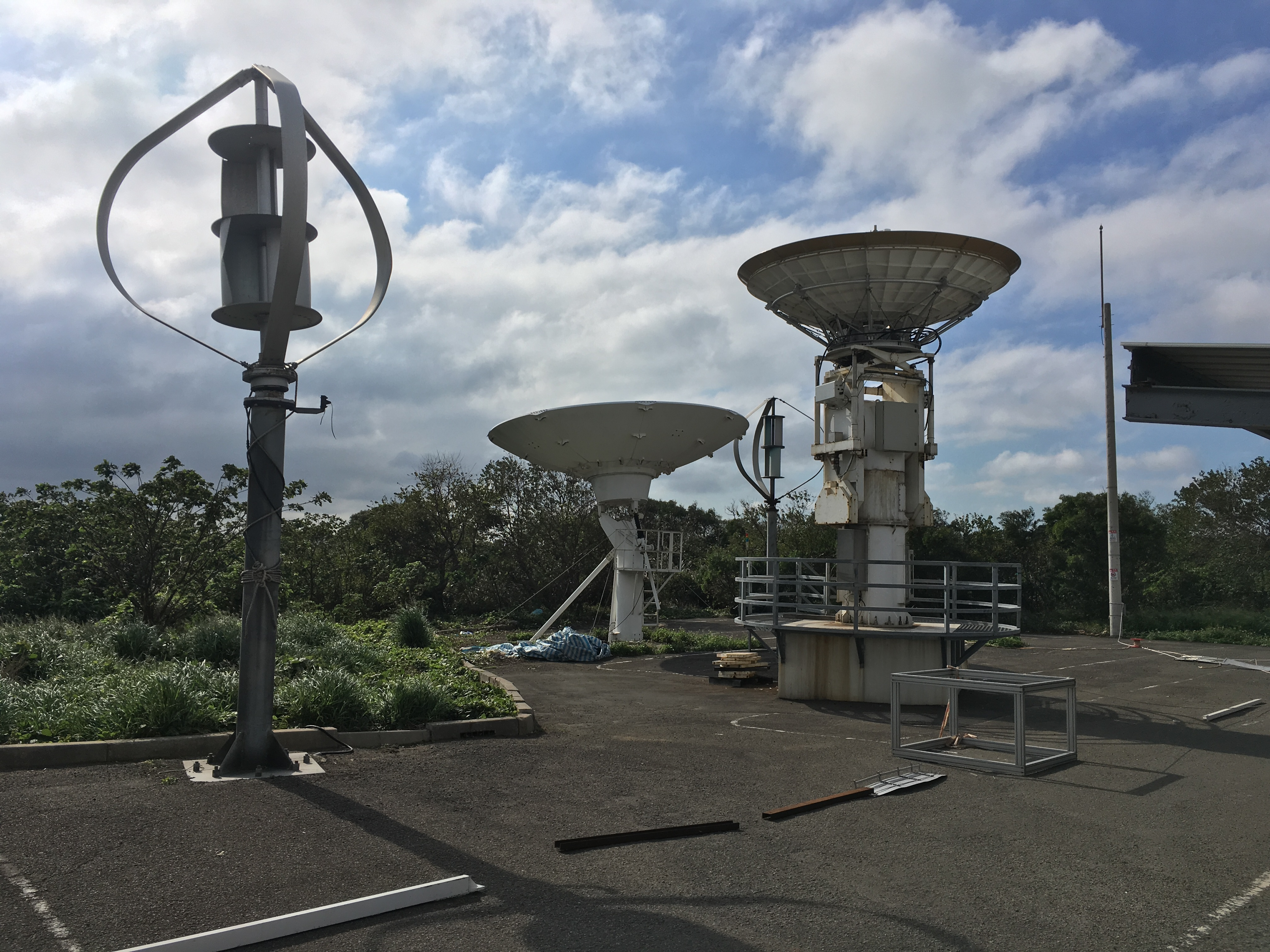 Satellite receiving station in Minghsin University of Science and Technology.